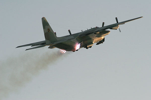 C-130 Hercules use rocket boosters in short-take-off, in IAF cadet graduation ceremony, #154